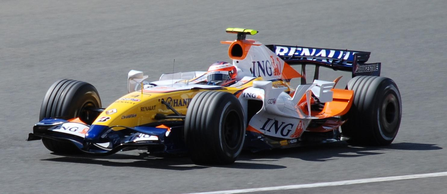 Heikki Kovalainen driving for Renault F1 at the 2007 British Grand Prix.